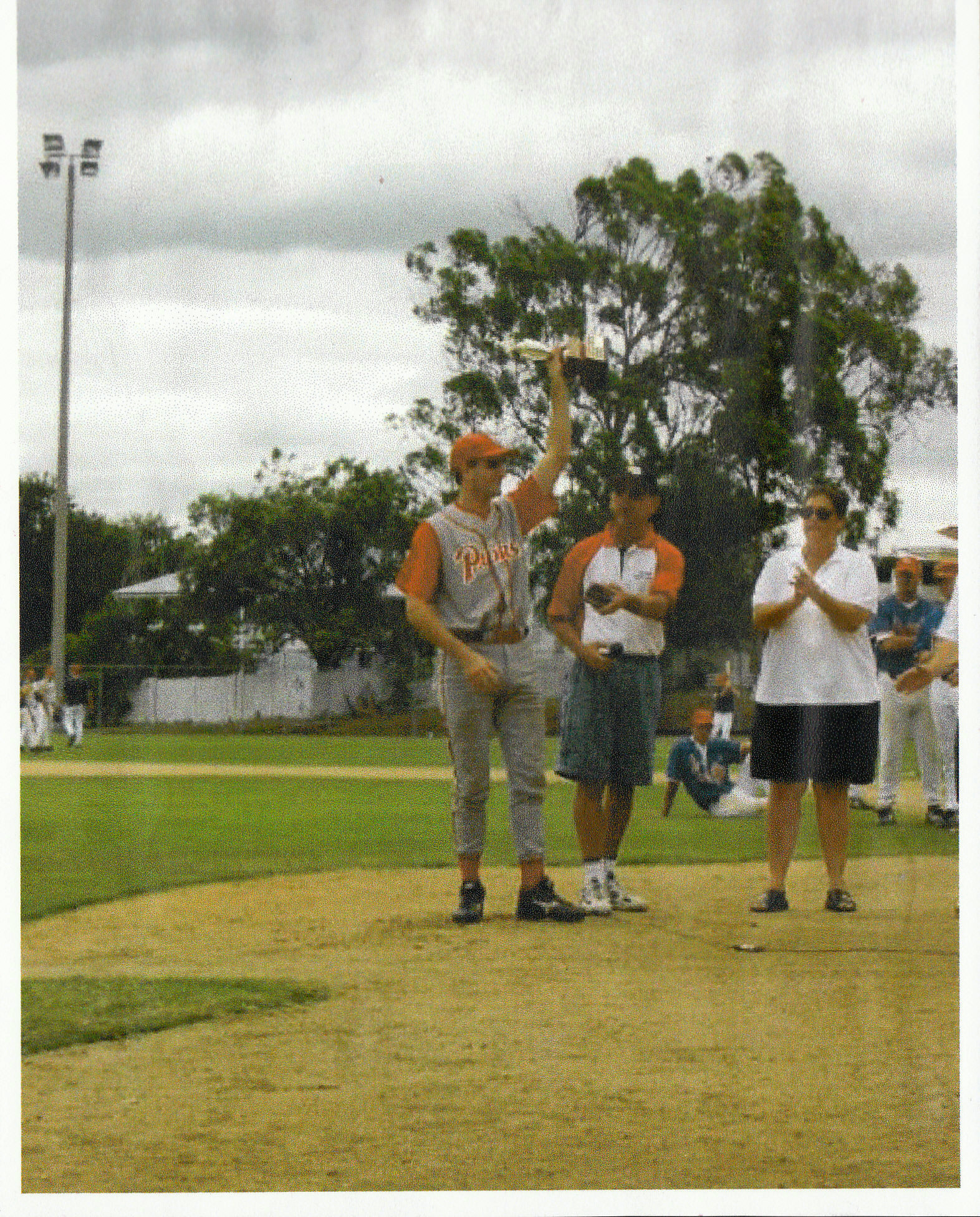 Geoff Sharpe holding the 2001-2002 B-Grade Trophy